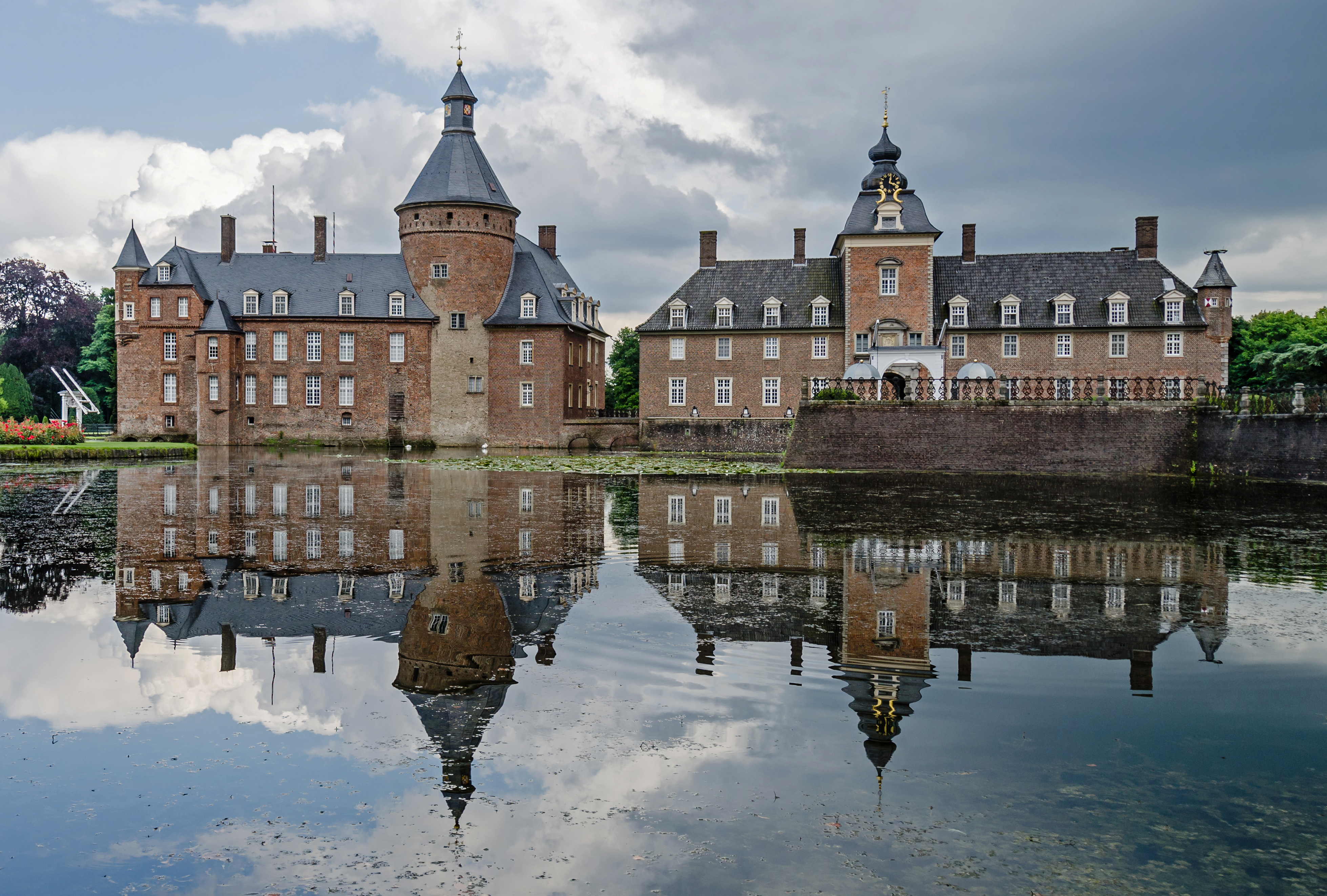 Anholt Castle, west facade (Germany)